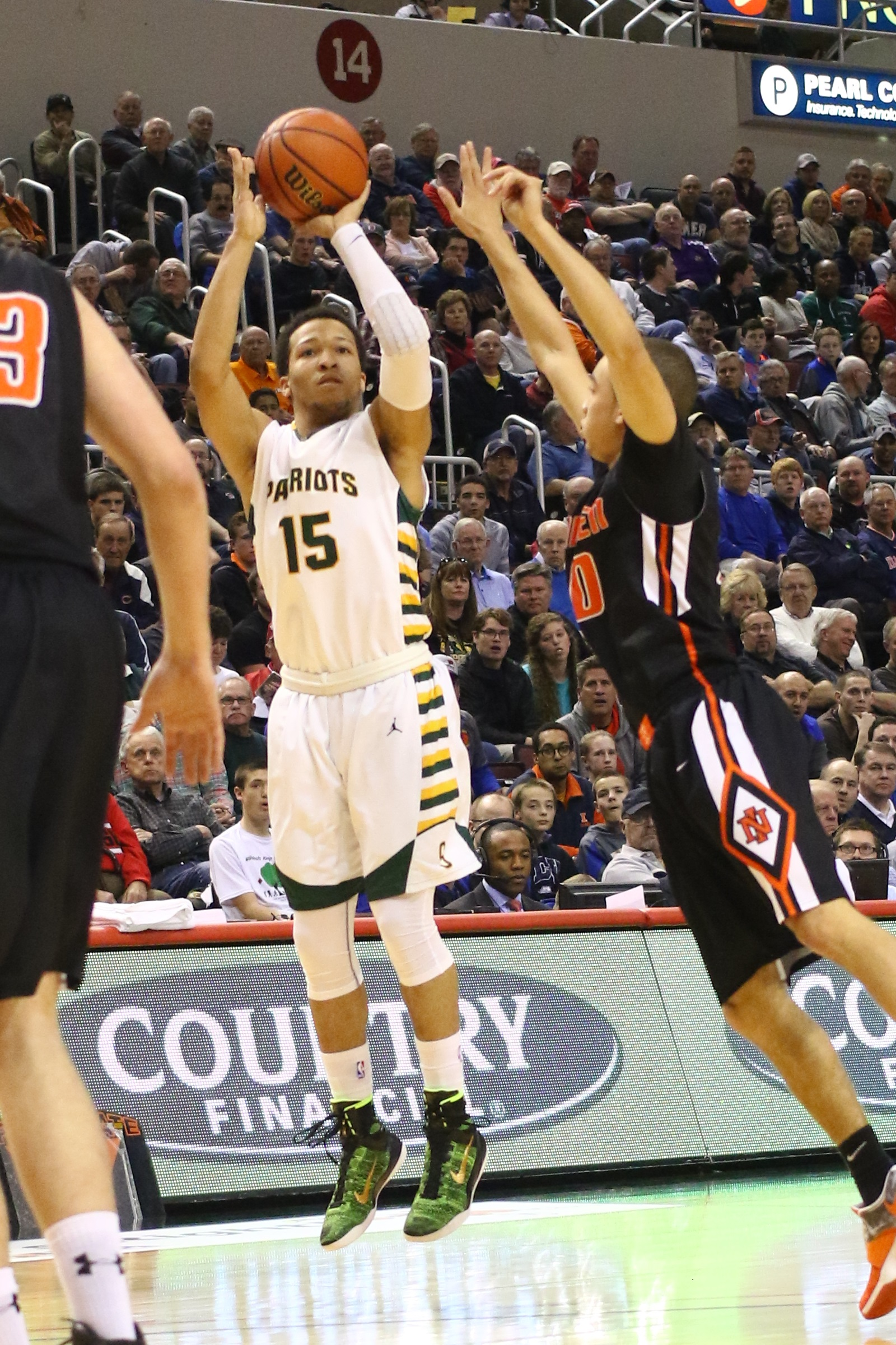 Jalen Brunson's first basket in the Illinois High School Association (IHSA) Class 4A state championship. He went on to set a Class 4A state championship game record with 30 points.